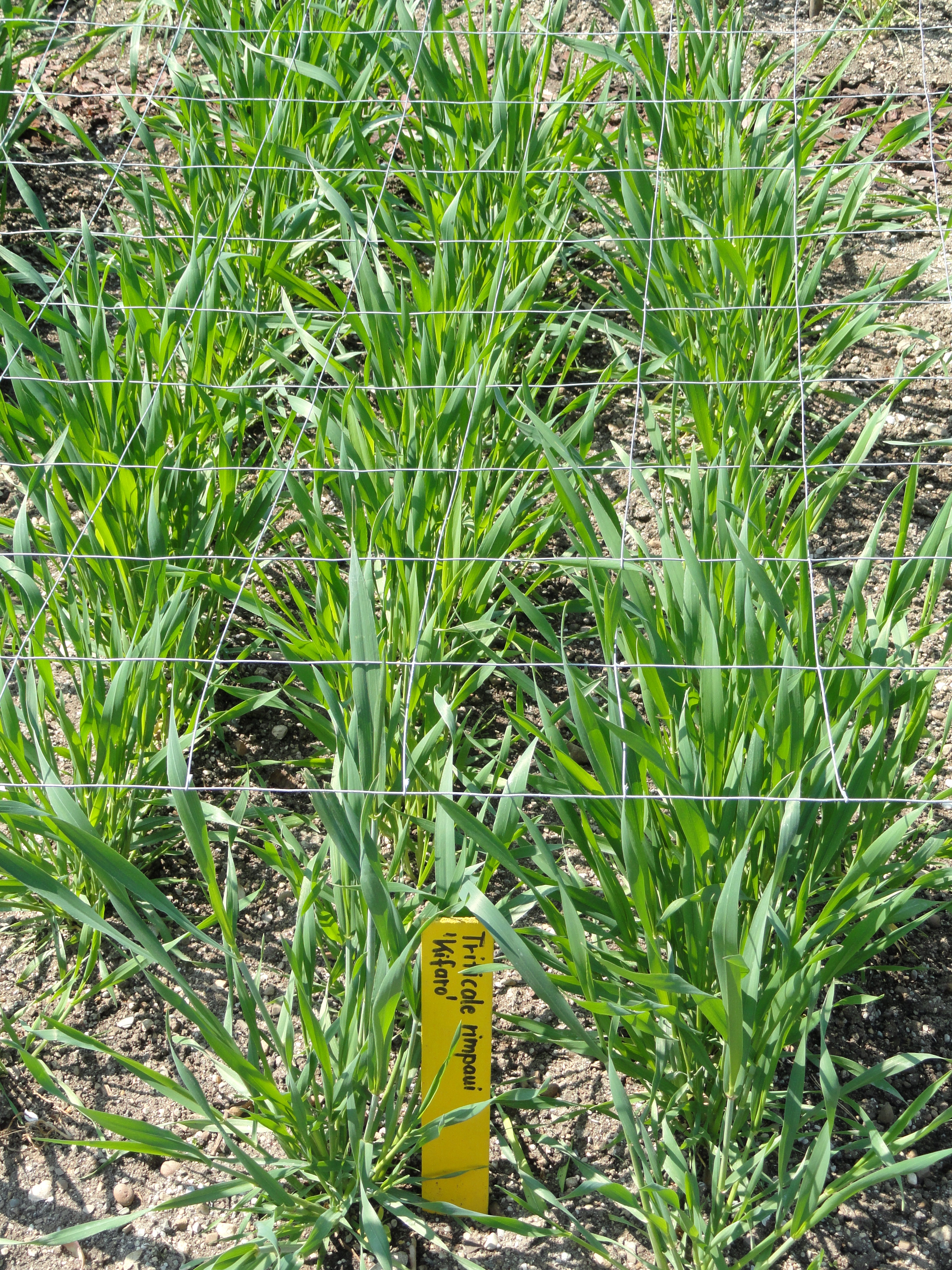 Triticale rimpaui specimen in the Botanischer Garten München-Nymphenburg, Munich, Germany.